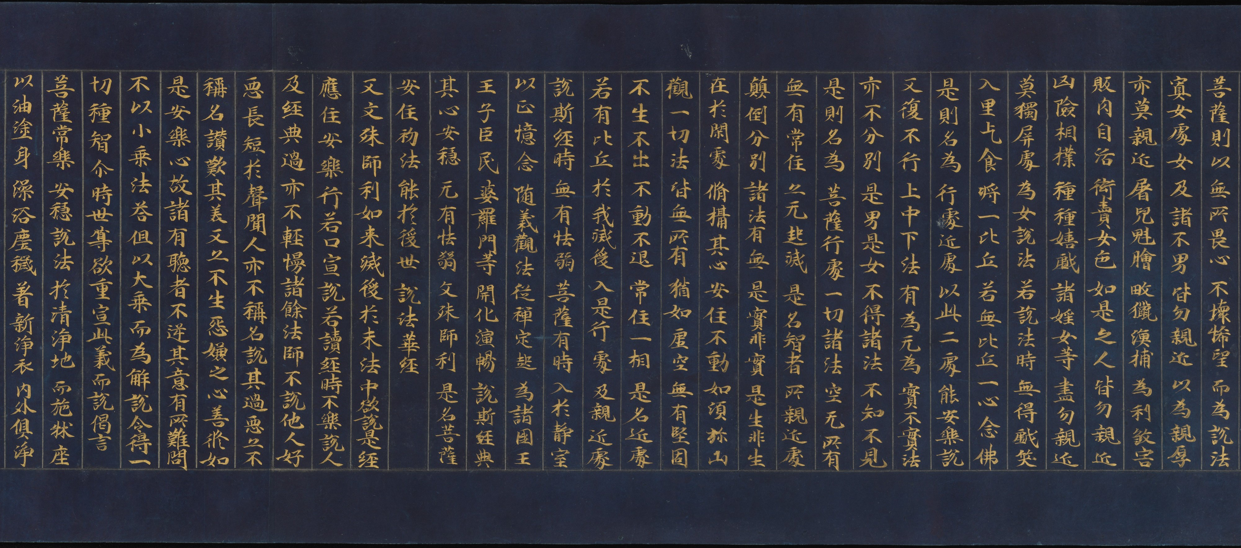 Japan; Handscroll; Paintings